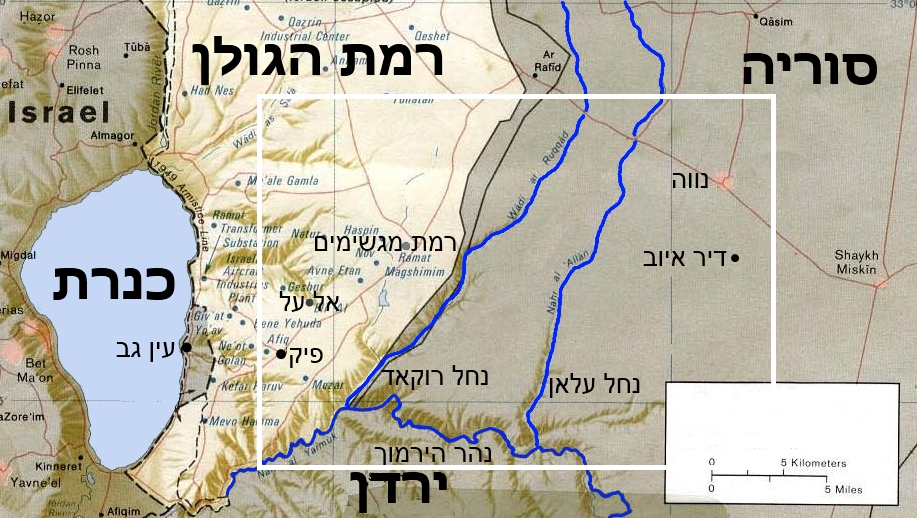 the yarmuok battle area